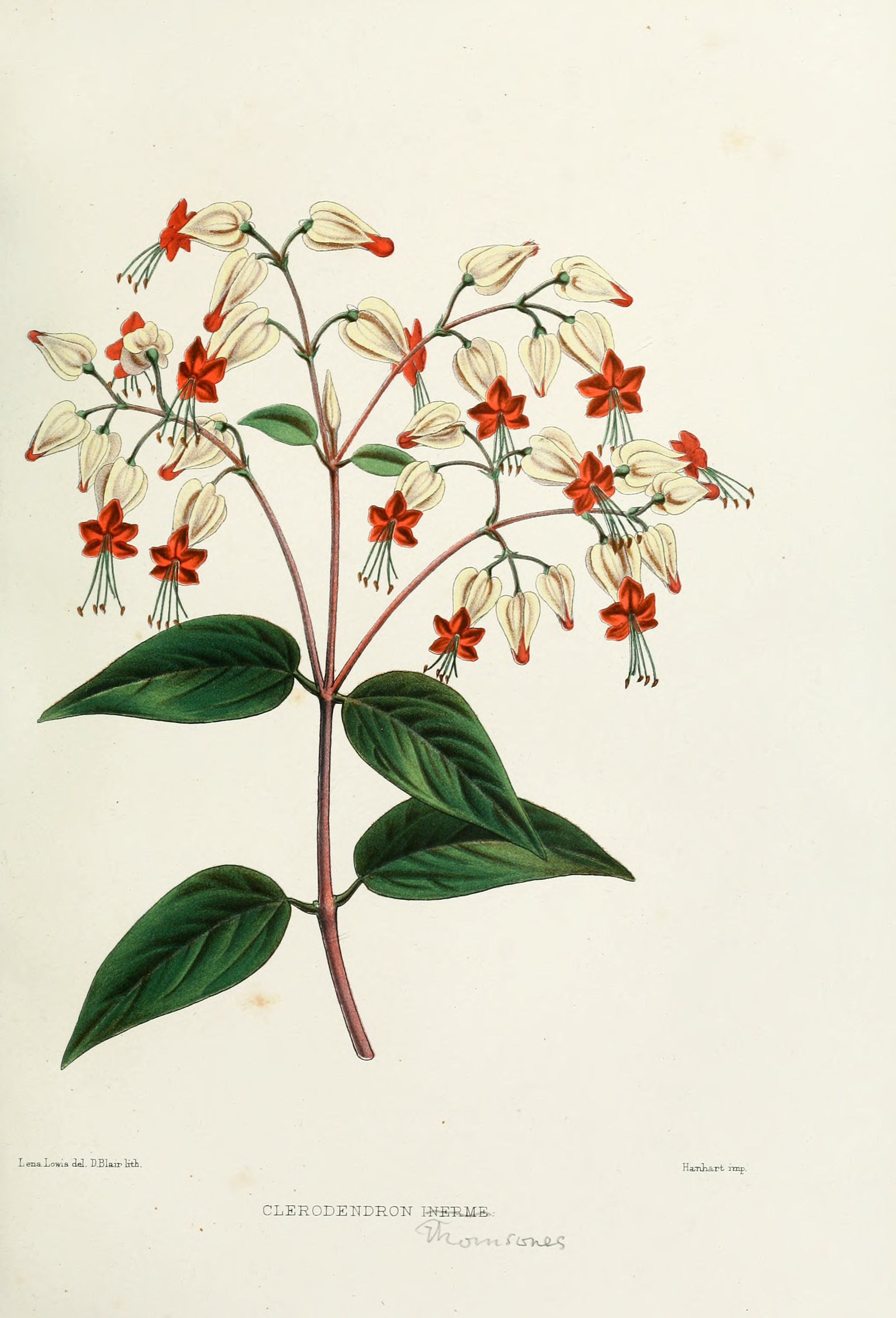 Colour drawing of clerodendron from Familiar Indian Flowers (1878) by Lena Lowis.